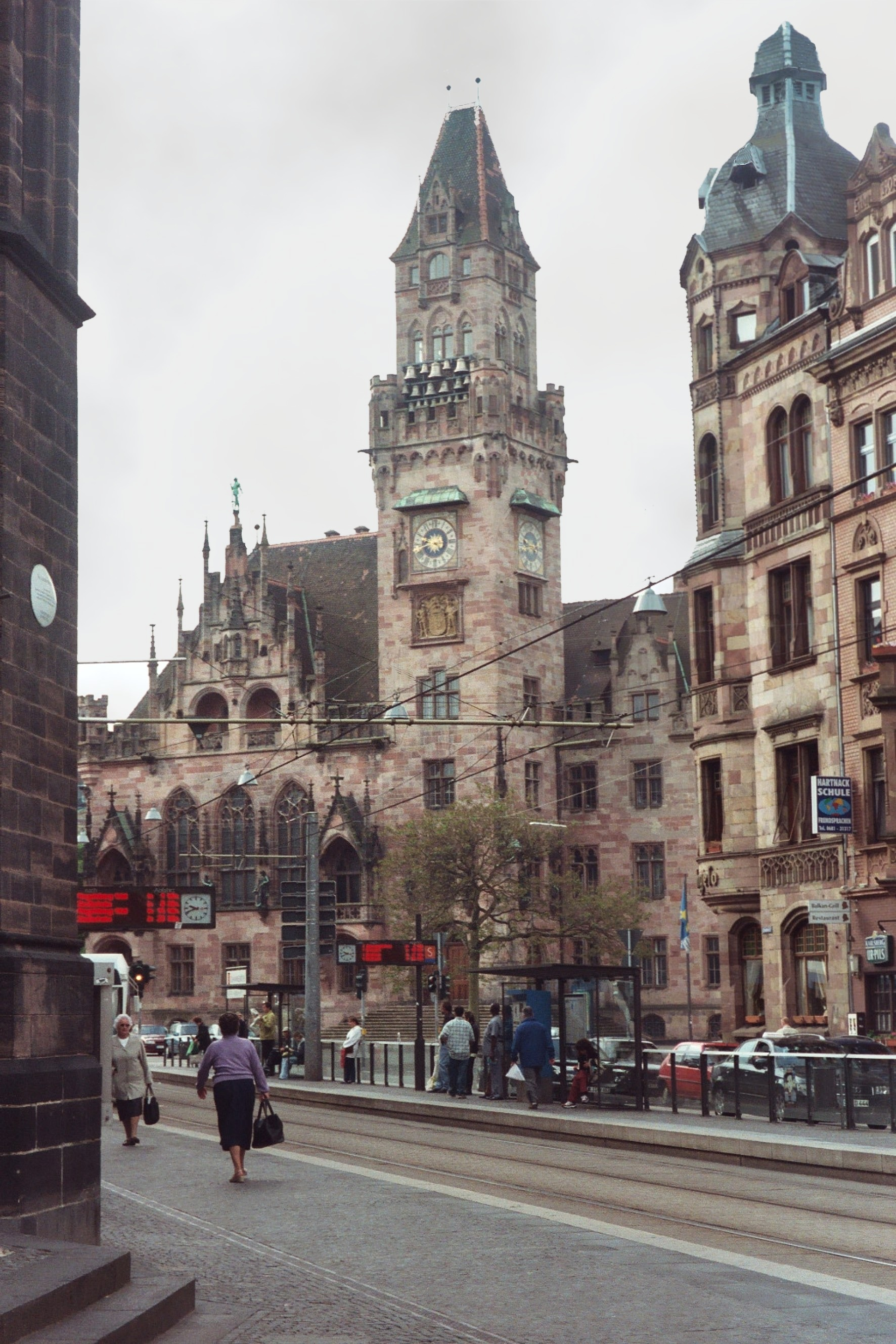 Saarbrücken, view to the town hall